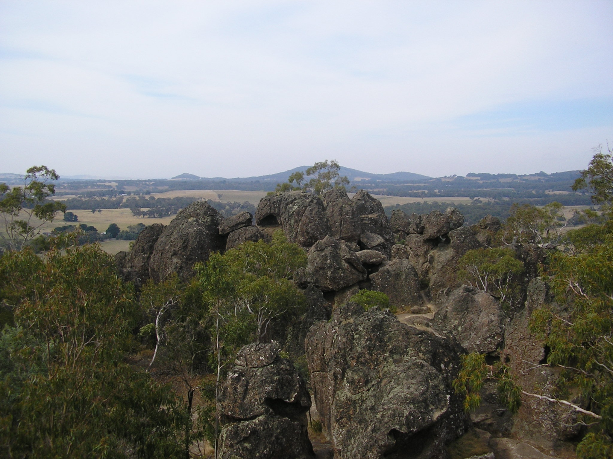 Rock Formations - Hanging Rock, Victoria, Australia